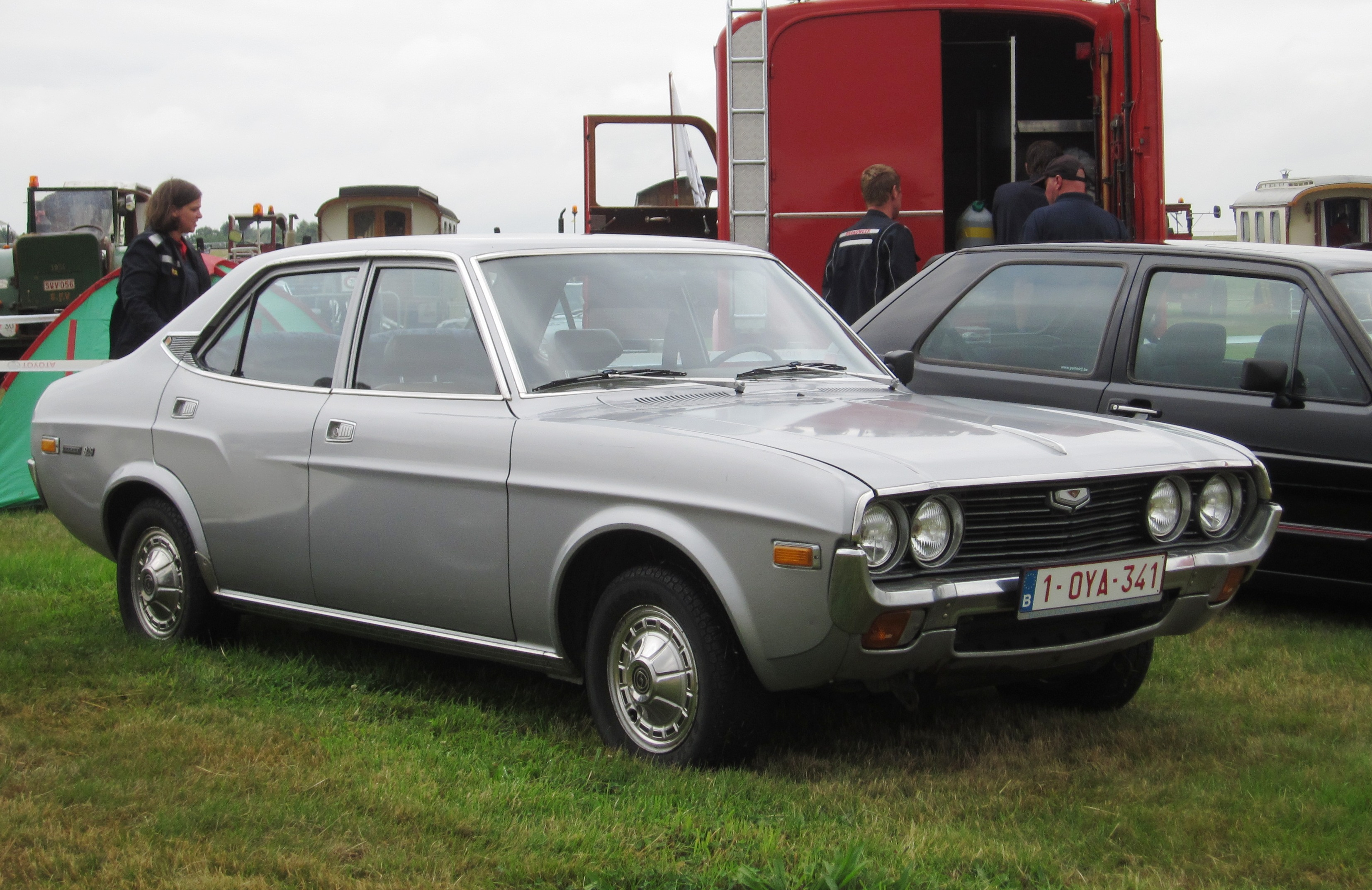 Mazda 929 built ca 1974 at Schaffen-Diest "Fly-Drive" 2013